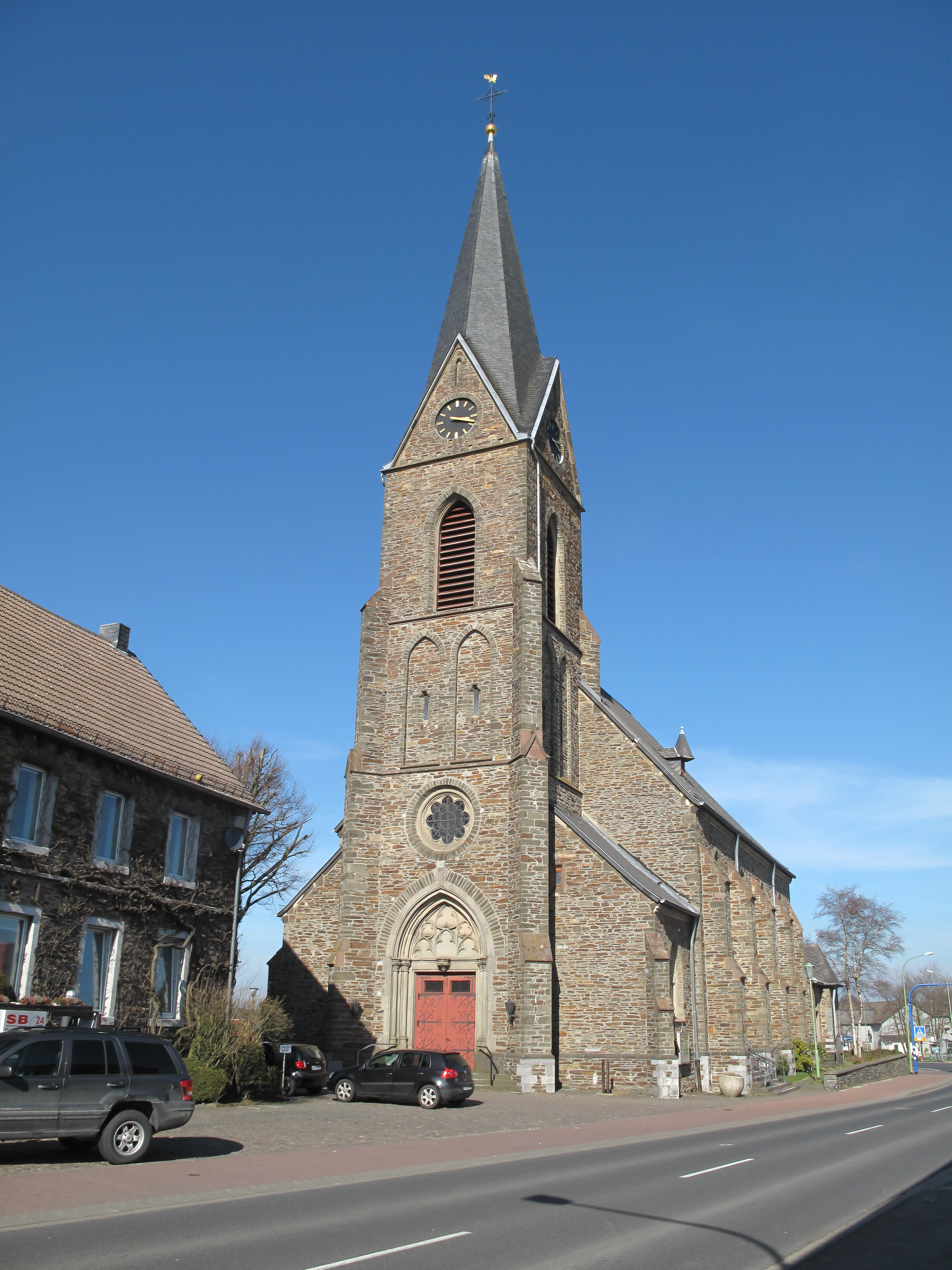 Lammersdorf, church